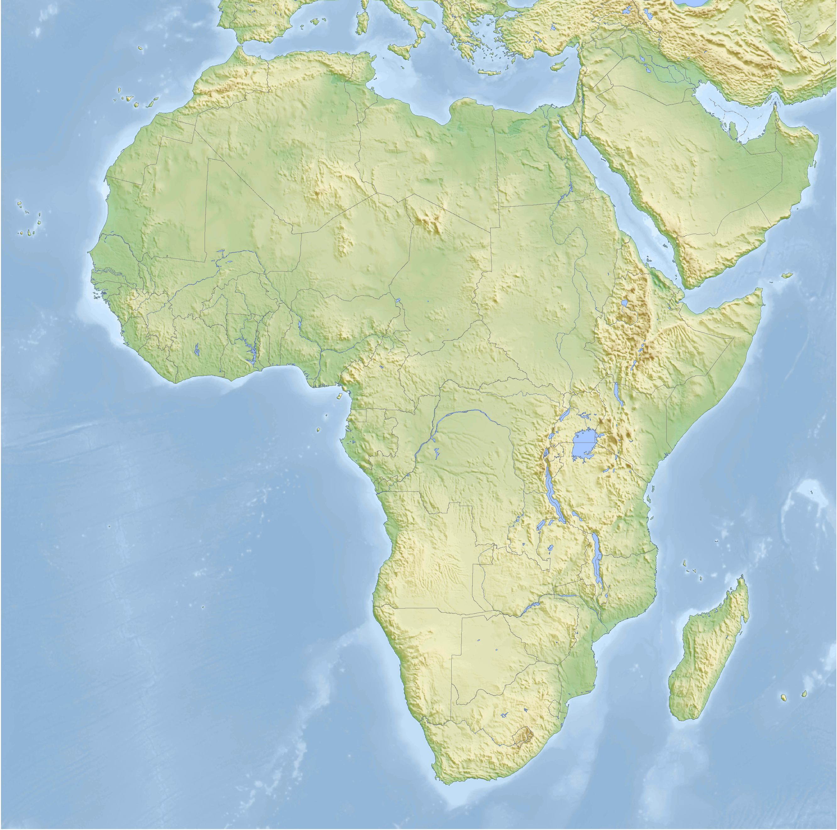 Topographic map of Africa with political boundaries, Cassini cylindrical projection